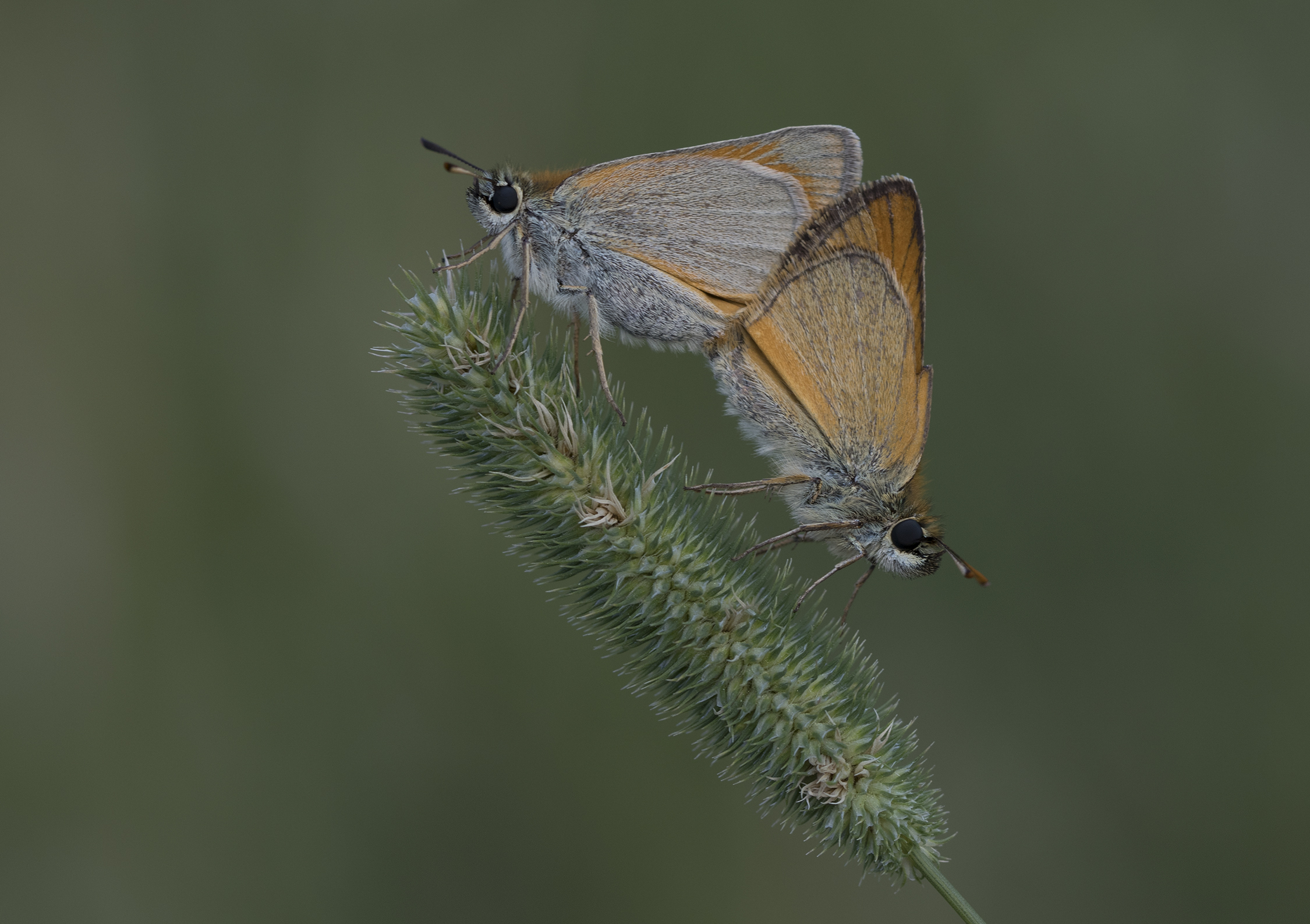 Essex Skipper (Thymelicus lineolus). Obrukbaşı, Saimbeyli - Adana, Turkey.